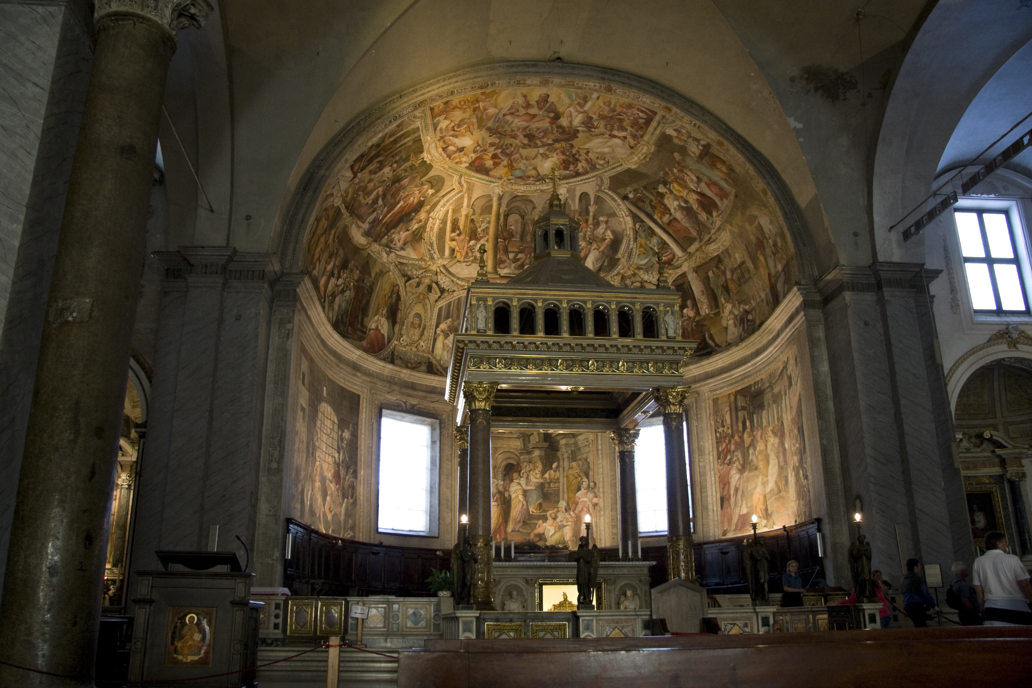 San Pietro in Vincoli is a church of Rome in Italy.